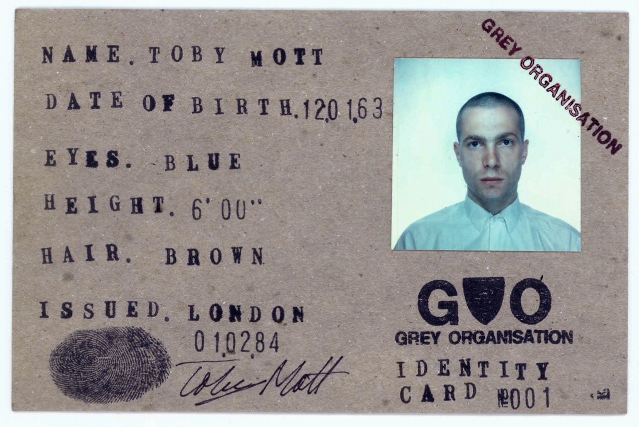 Grey Organisation, ID Card. For more information